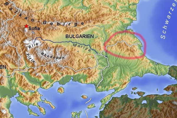 location of Strandscha mountain in Bulgaria